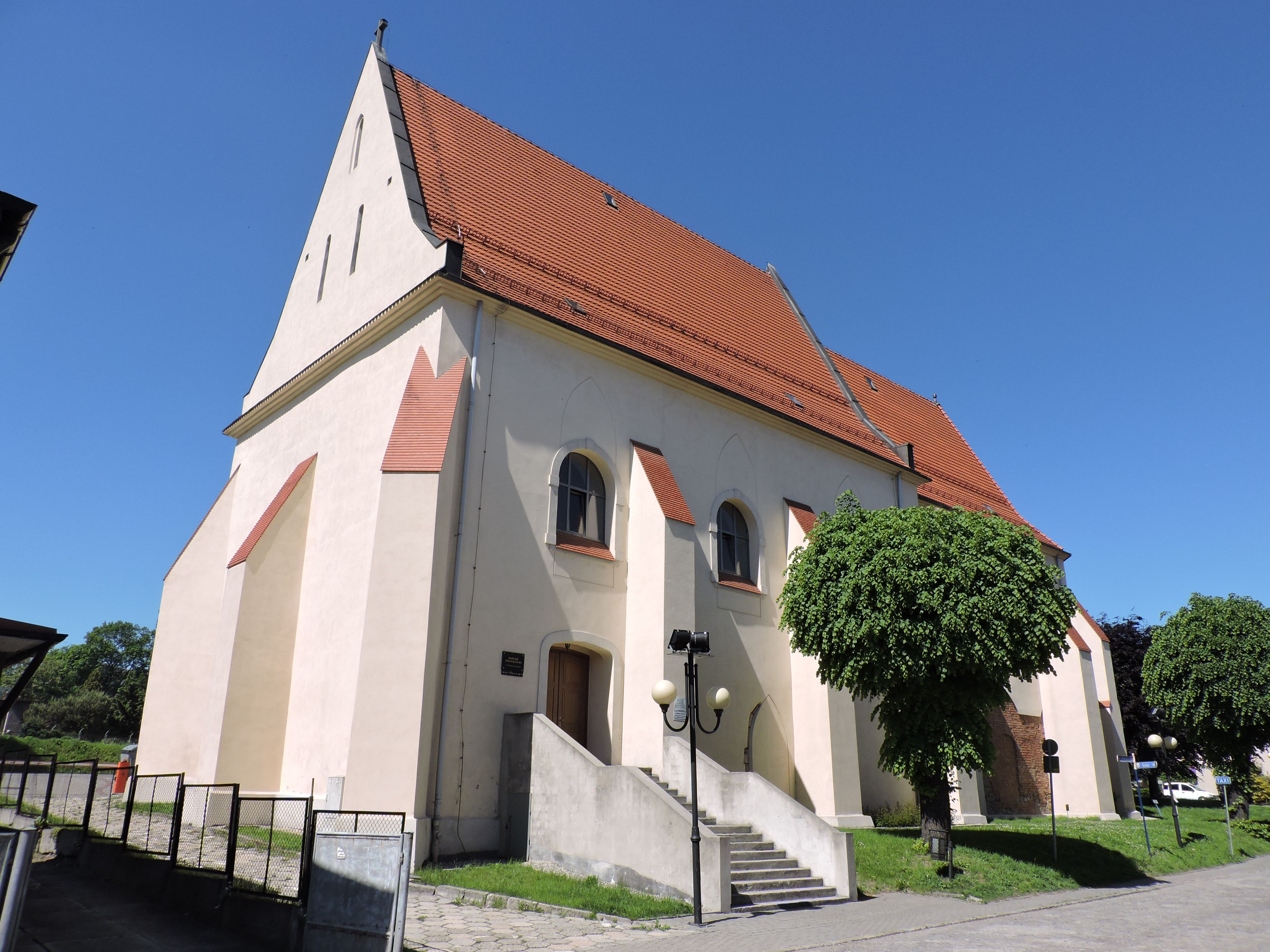 Church of the Holy Trinity in Wodzisław Śląski, Poland.